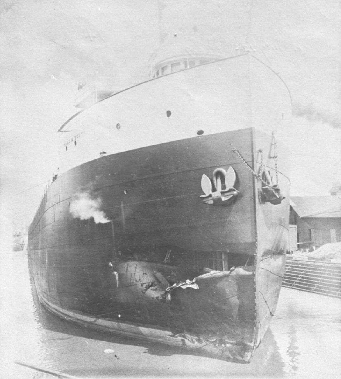 The steamer Isaac M. Scott after ramming the steamer John B. Cowle